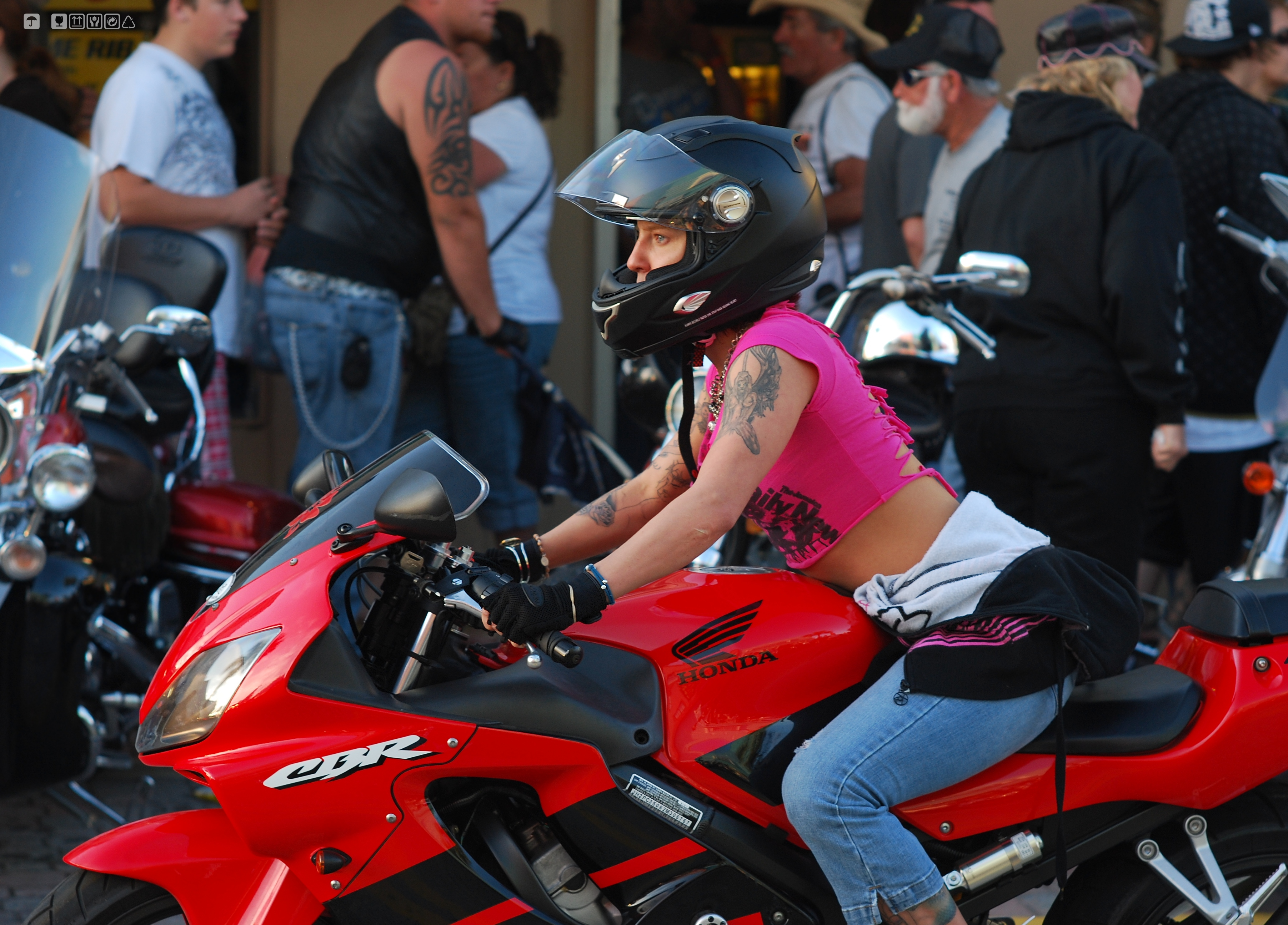 Honda's girl. Daytona bike week 2009. 7 march 2009. Daytona. Florida. Nikon D60 Nikkor H 85mm f1.8 . Manual.